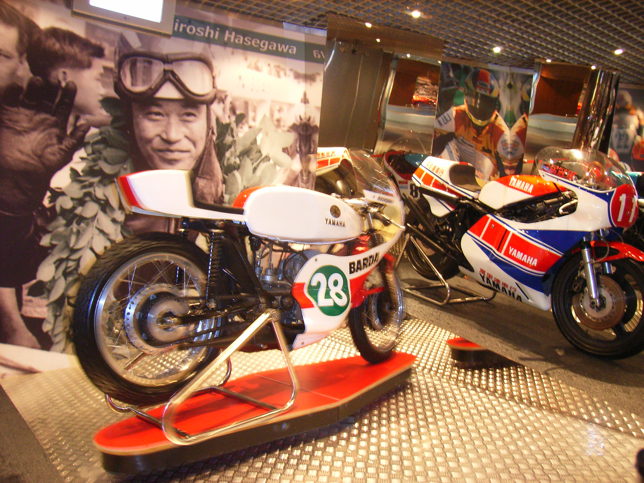 The Grad Prix Museum in Macau 澳門大賽車博物館 在 新口岸區 高美士街